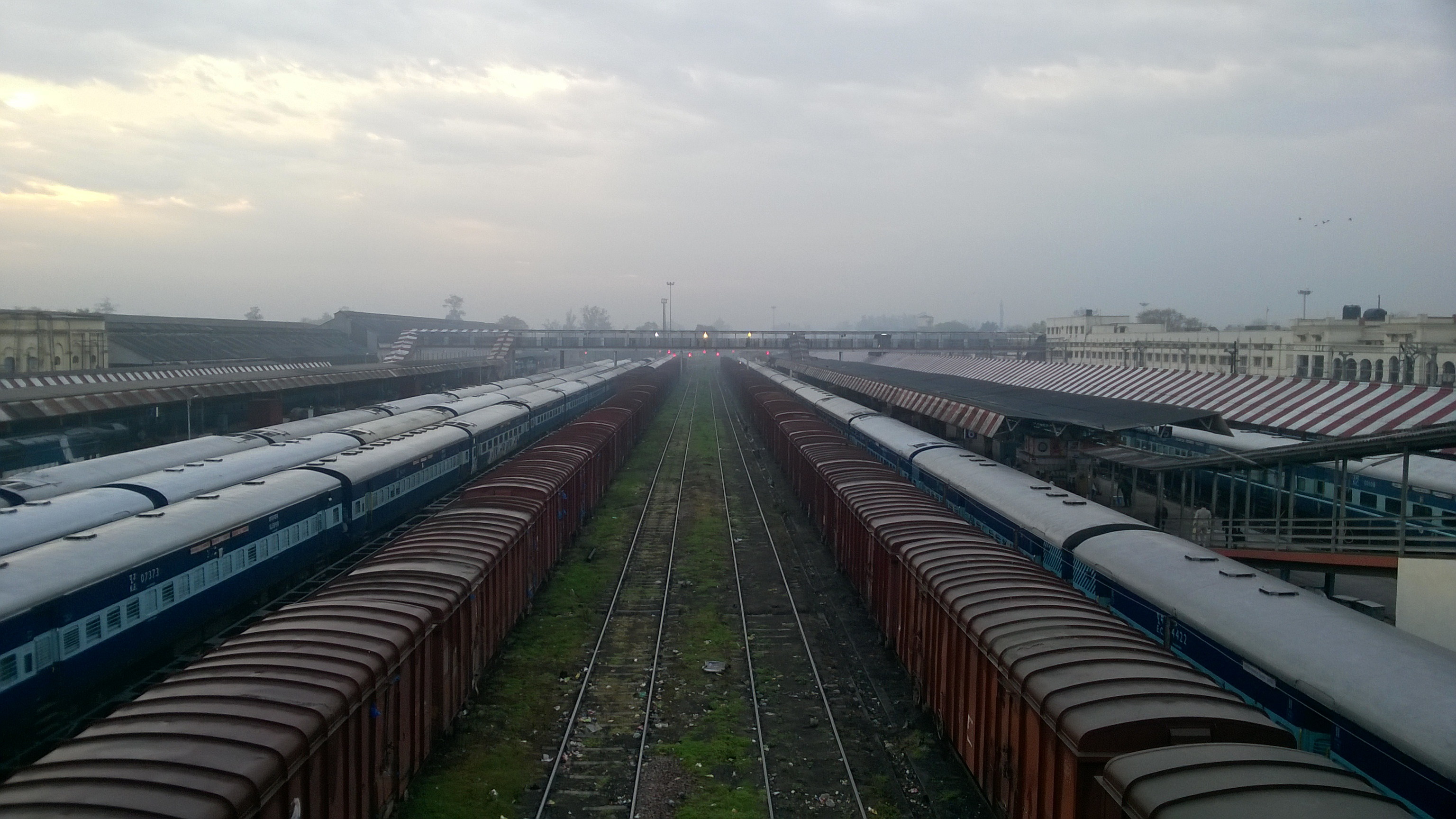 A shot from the foot-over bridge of Gorakhpur Junction railway station